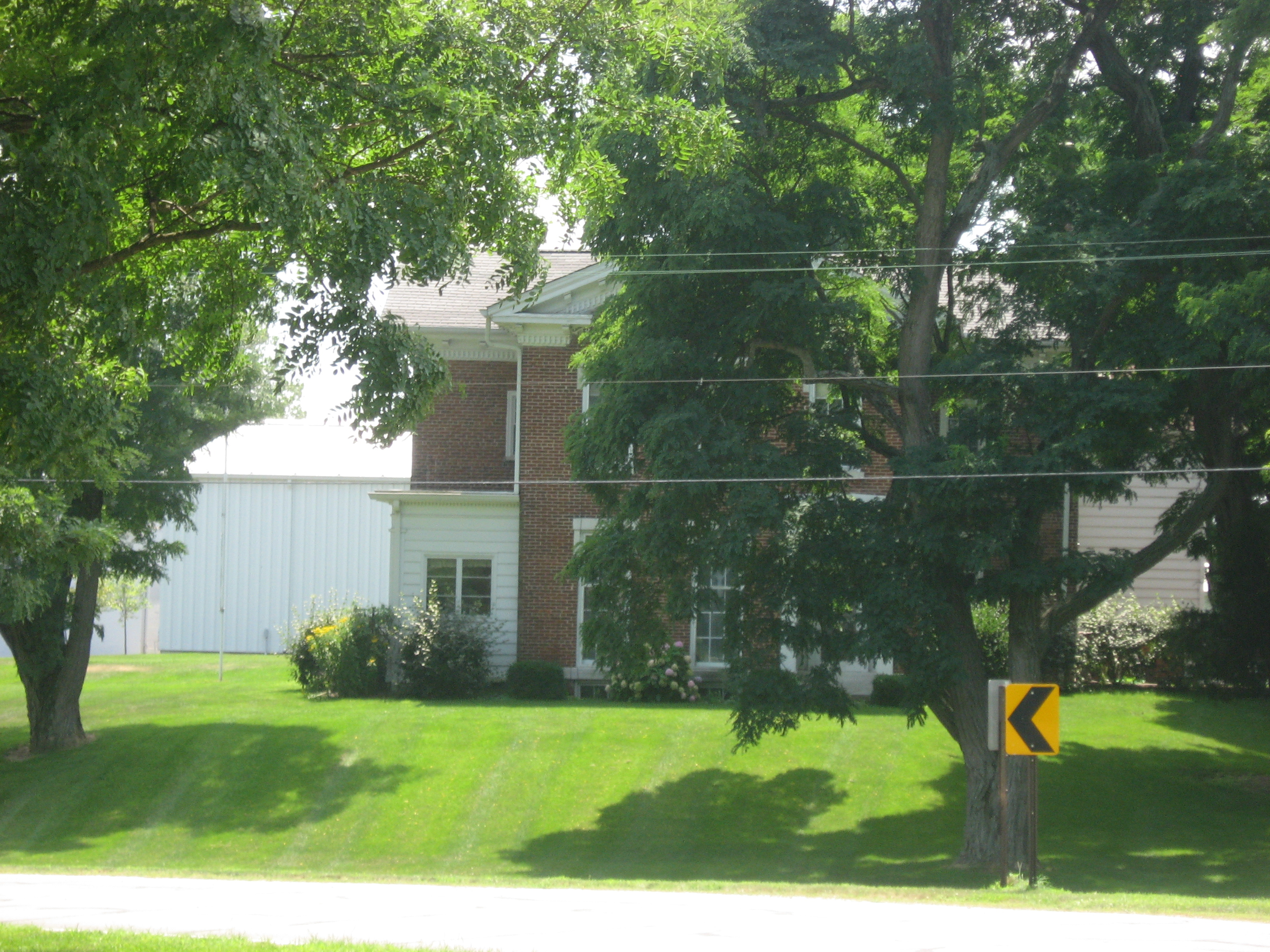 Front of the Studabaker-Scott House, located along State Route 49 south of Greenville in Greenville Township, Darke County, Ohio, United States. Together with the nearby Beehive School, the house — built in 1835 — is listed on the National Register of Historic Places.